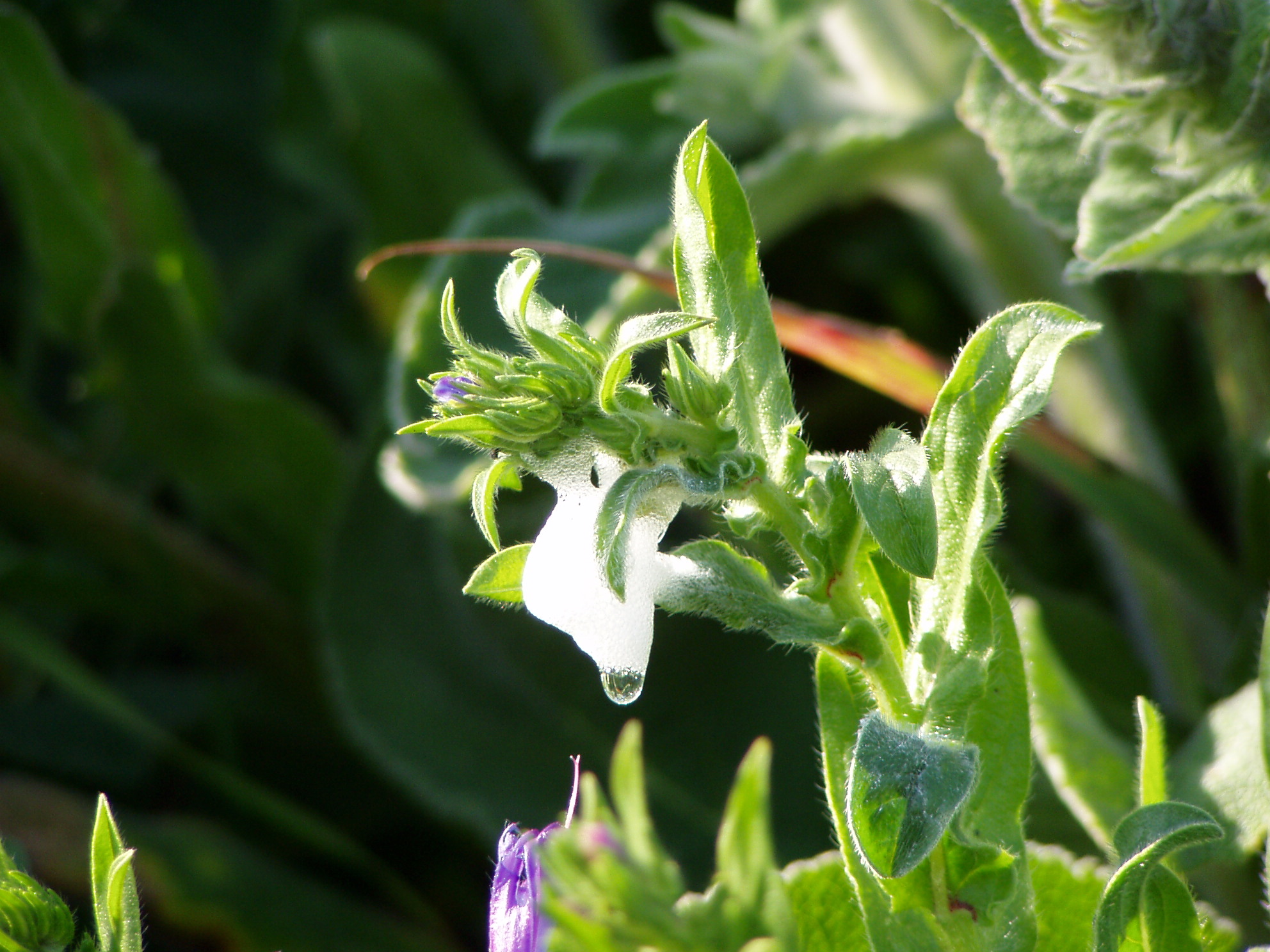 Meadow Spittlebug